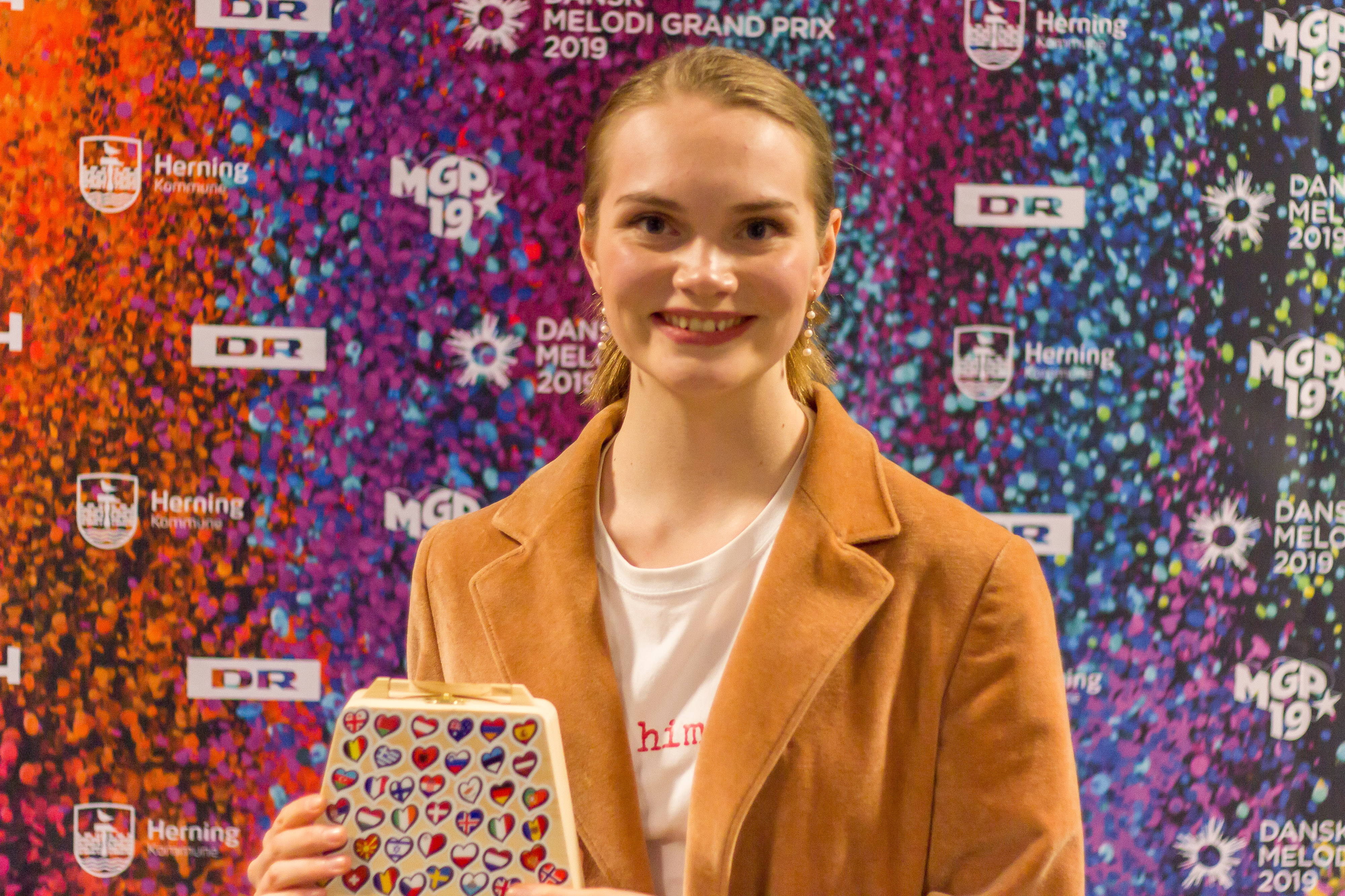 Leonora Colmor Jepsen at the Danish Melodi Grand Prix 2019.